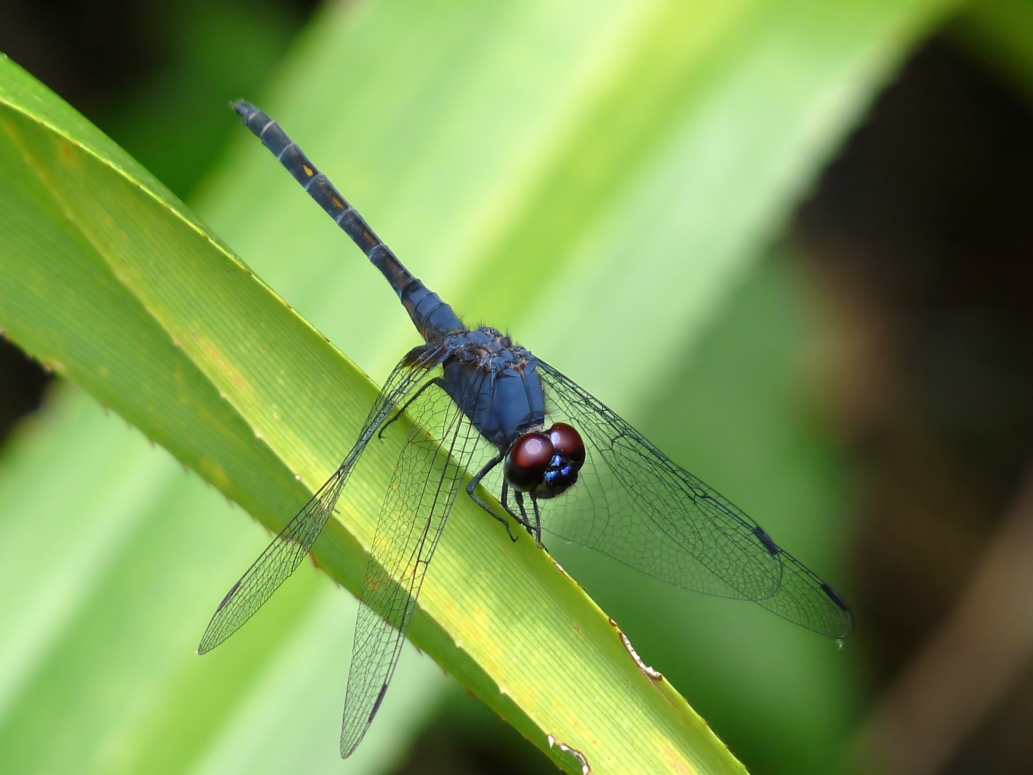 Trithemis festiva, Black Stream Glider or Indigo Dropwing, is a tropical Asian species normally found at flowing streams with rock and gravel. Mature males are entirely dark (i.e. dark blue rather than black) overlaid with a fine whitish pruinescence. Young males look similar to females, sporting extensive yellow patches on their abdomen. In addition, females especially often have extensive dark patches at the wing tips. Taken at Kadavoor, Kerala, India.